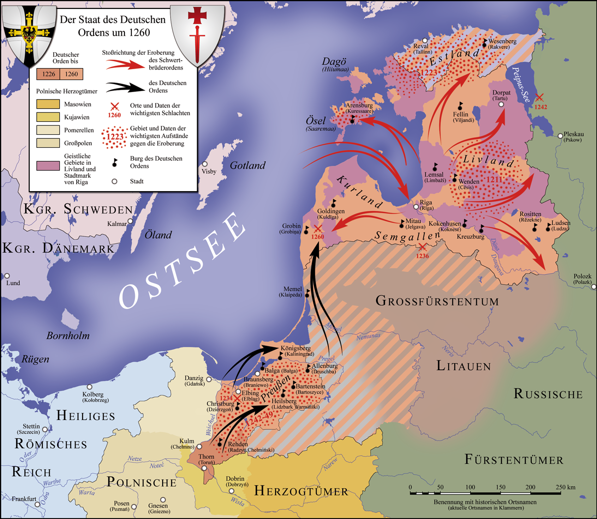 Map of the monastic state of the Teutonic Knights 1260